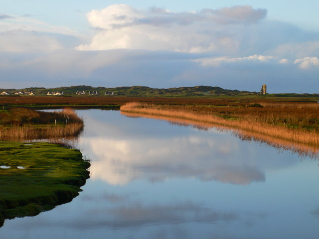 River Dealagh at New Bridge Looking south-west over the river towards Lehinch. O'Brien's castle appearing on the right.